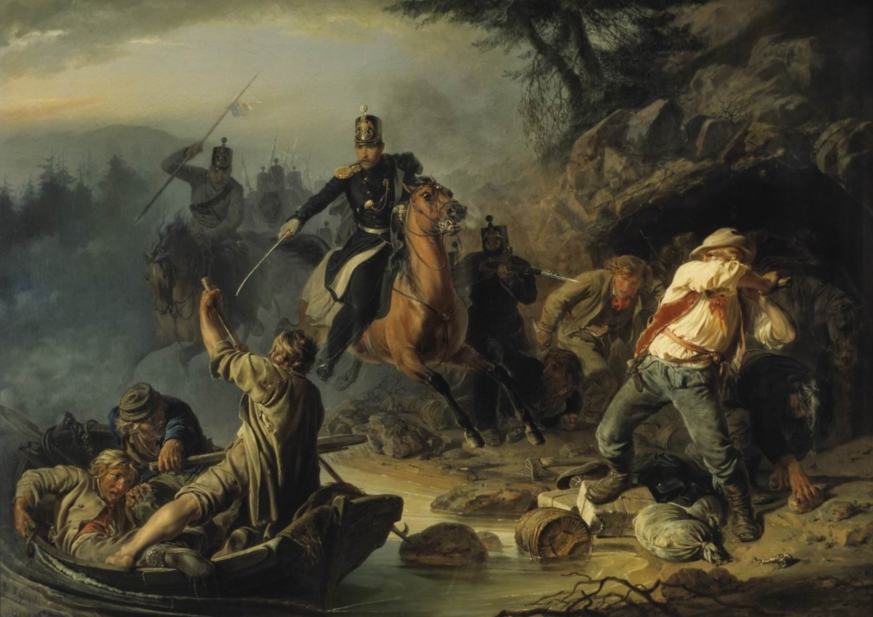 Depicted time: the middle of XIX century. Depicted event: A capture of the group of smugglers from the local residents of the Grand Duchy of Finland, many of which are hunted for illegal transfer of goods across the border of the Russian Empire. Then coffee, salt, brandy and tin-plate appear in the list of most commonly encountered smuggling items.